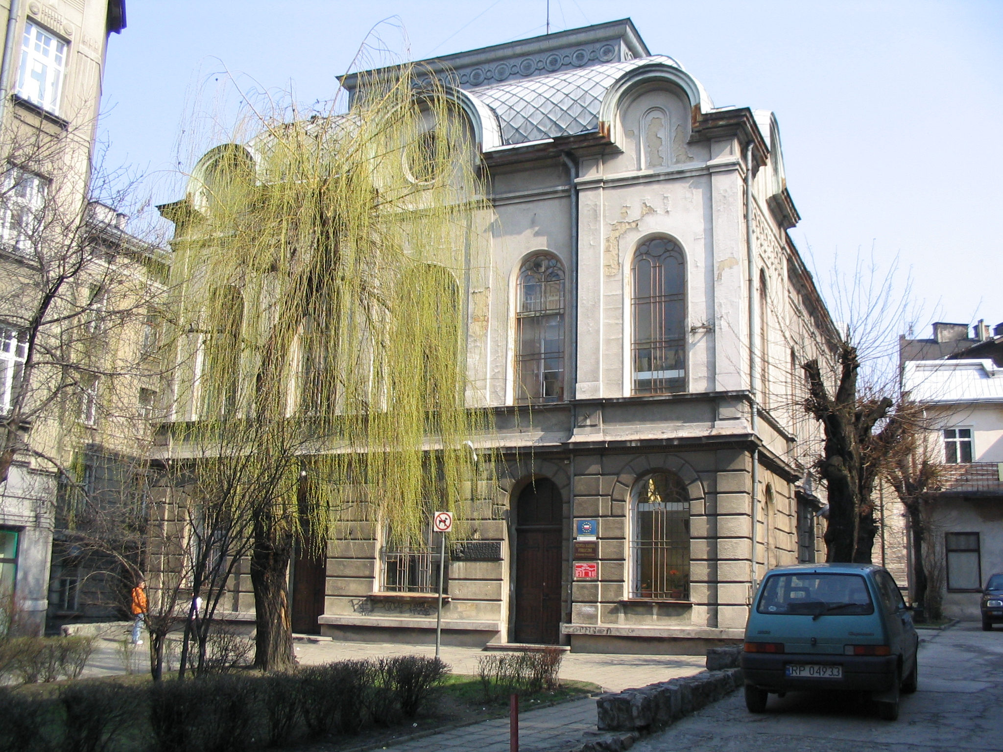 The New Synagogue (Scheinbach Synagogue), Przemyśl